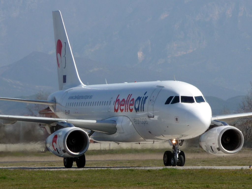 Airbus A319-132 registered EI-LIR msn 2335 operated by Belleair Europe